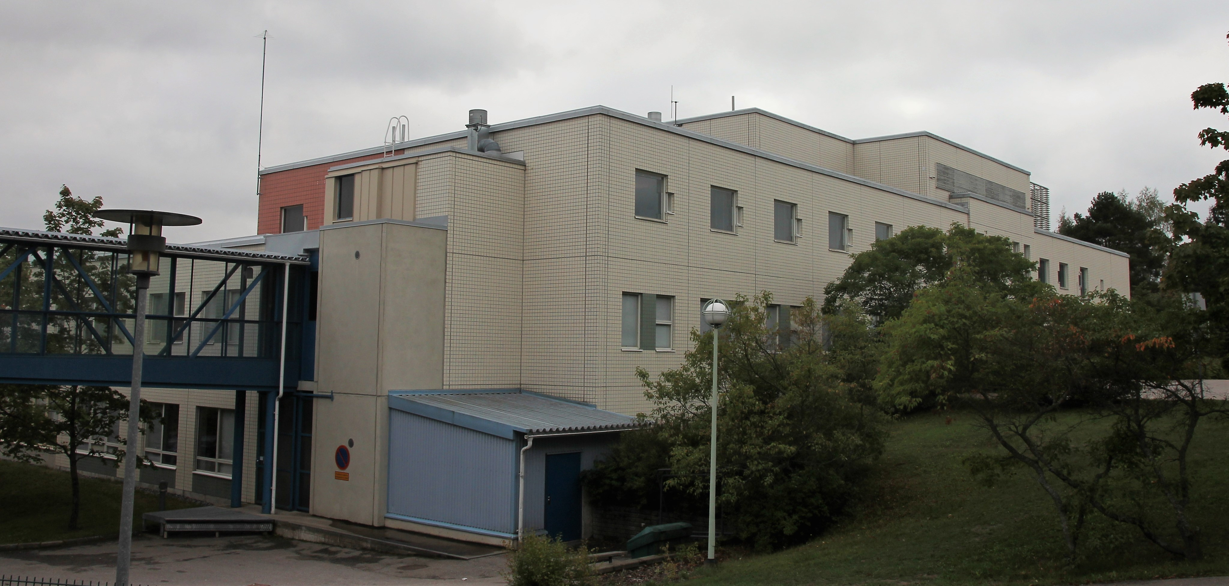 Espoonlahti health station in Espoonlahti, Espoo. Address: Merikansantie 4, Espoo.